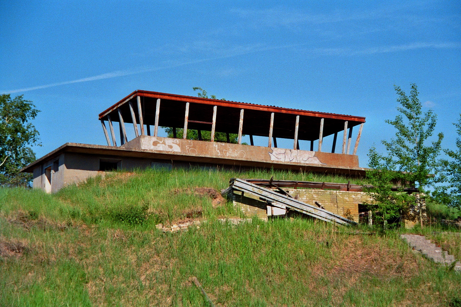 Abandoned military building of the former Group of Soviet Forces in Germany proving ground (or training area) in the Lieberoser Heide in Brandenburg, Germany.